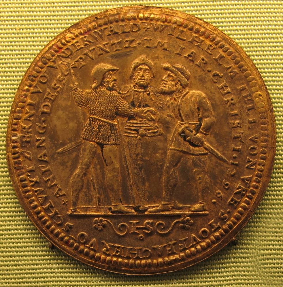 "Bundestaler" by Jacob Stampfer. Designed in ca. 1546, this medal was very successful and was frequently recast over the later decades of the 16th century. It depicts the Rütlischwur, which is here dated to 1296 (as opposed to the date of 1307 that became standard based on Tschudi's Chronicle). + WILHELM TELL VON VRE · STOVFFACHER VO' SCHWVVYTZ ERNI VON VNDERWALD + ANFANG · DESS PVNTZ · IM IAR · CHRISTI · 1296 · Monogram IS